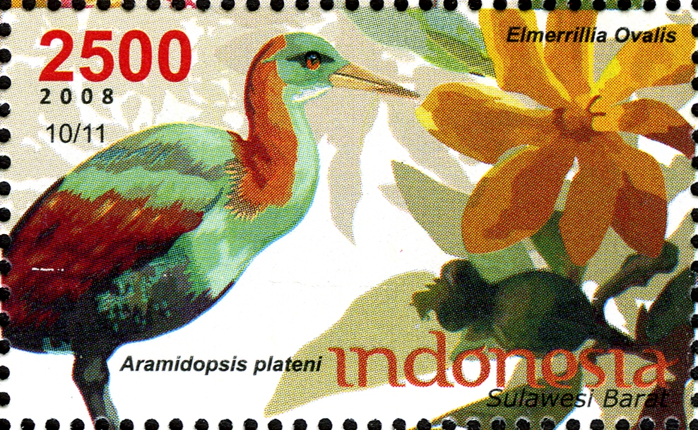 Stamps of Indonesia